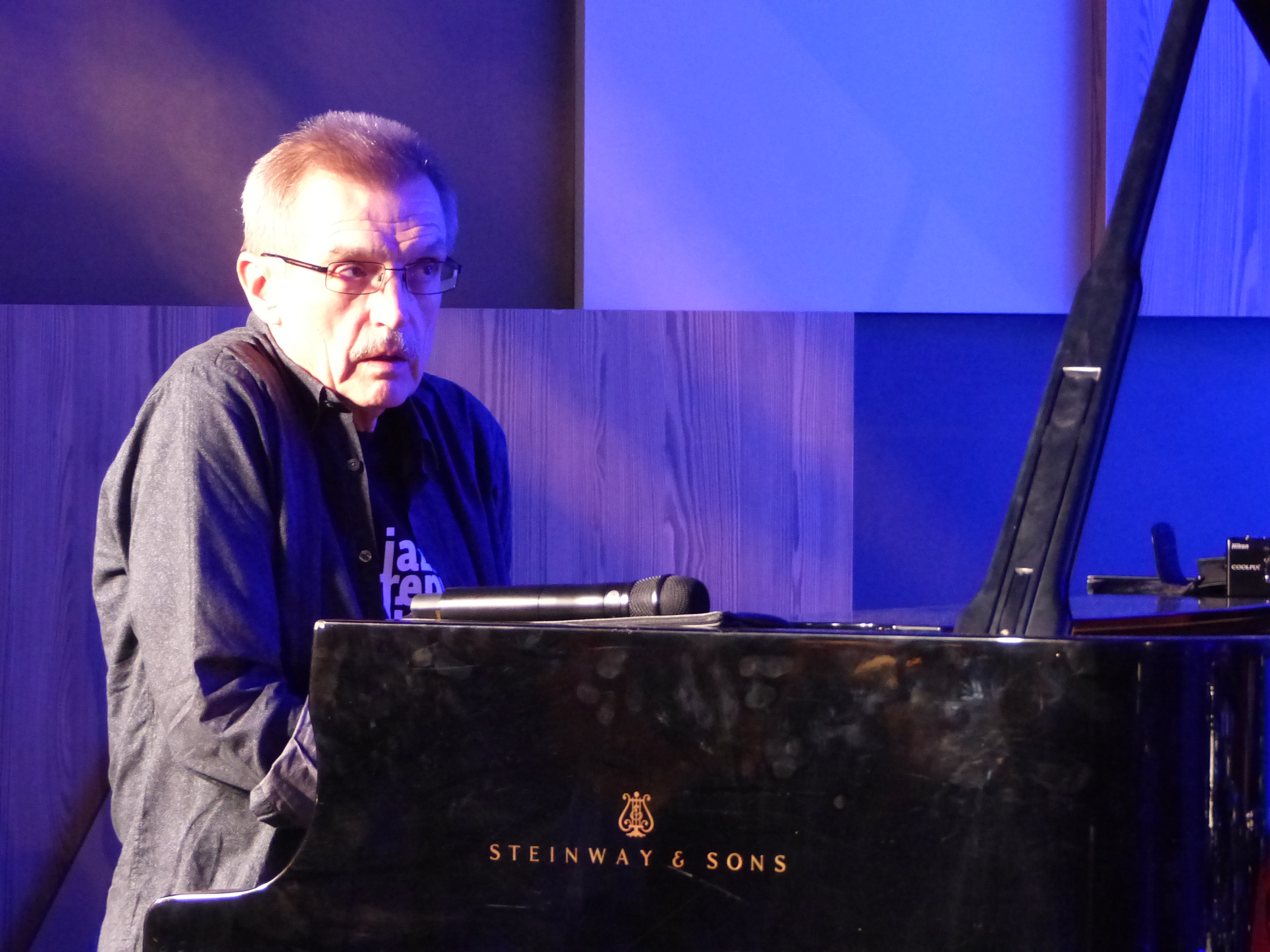 Emil Viklický. Taken on the 27th of April, 2018. Várkert Bazár, Budapest. V4 Concerts.